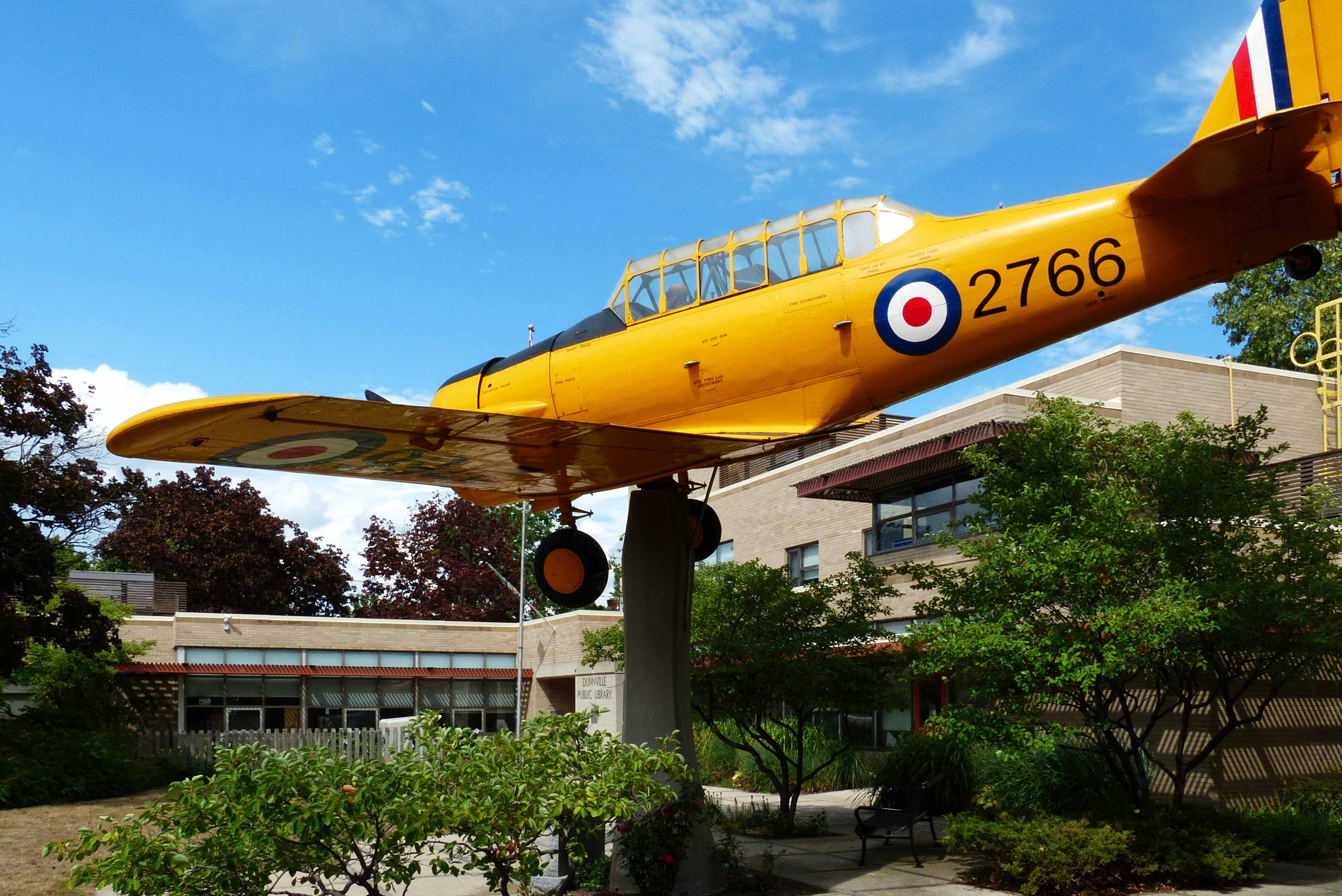 The Royal Canadian Air Force memorial at the Dunnville Public Library, Dunnville, Ontario Canada. Dedicated in 1964, this Harvard Mk. II aircraft reminds us of the RCAF No. 6 Service Flying Training School that ran at the Dunnville Airport in WWII, and especially of the forty seven men who perished while serving there.